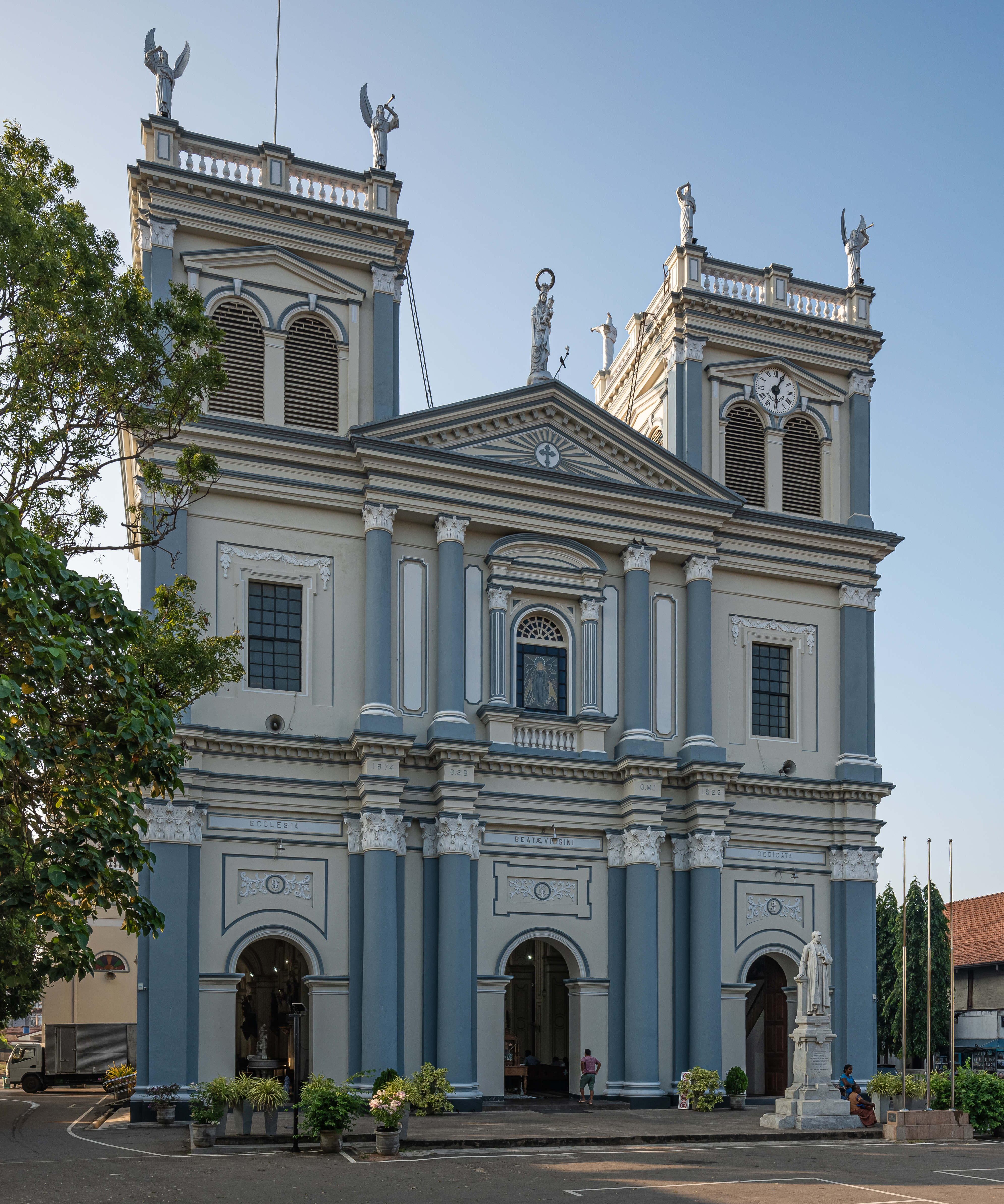 St. Mary's Church in Negombo, Sri Lanka